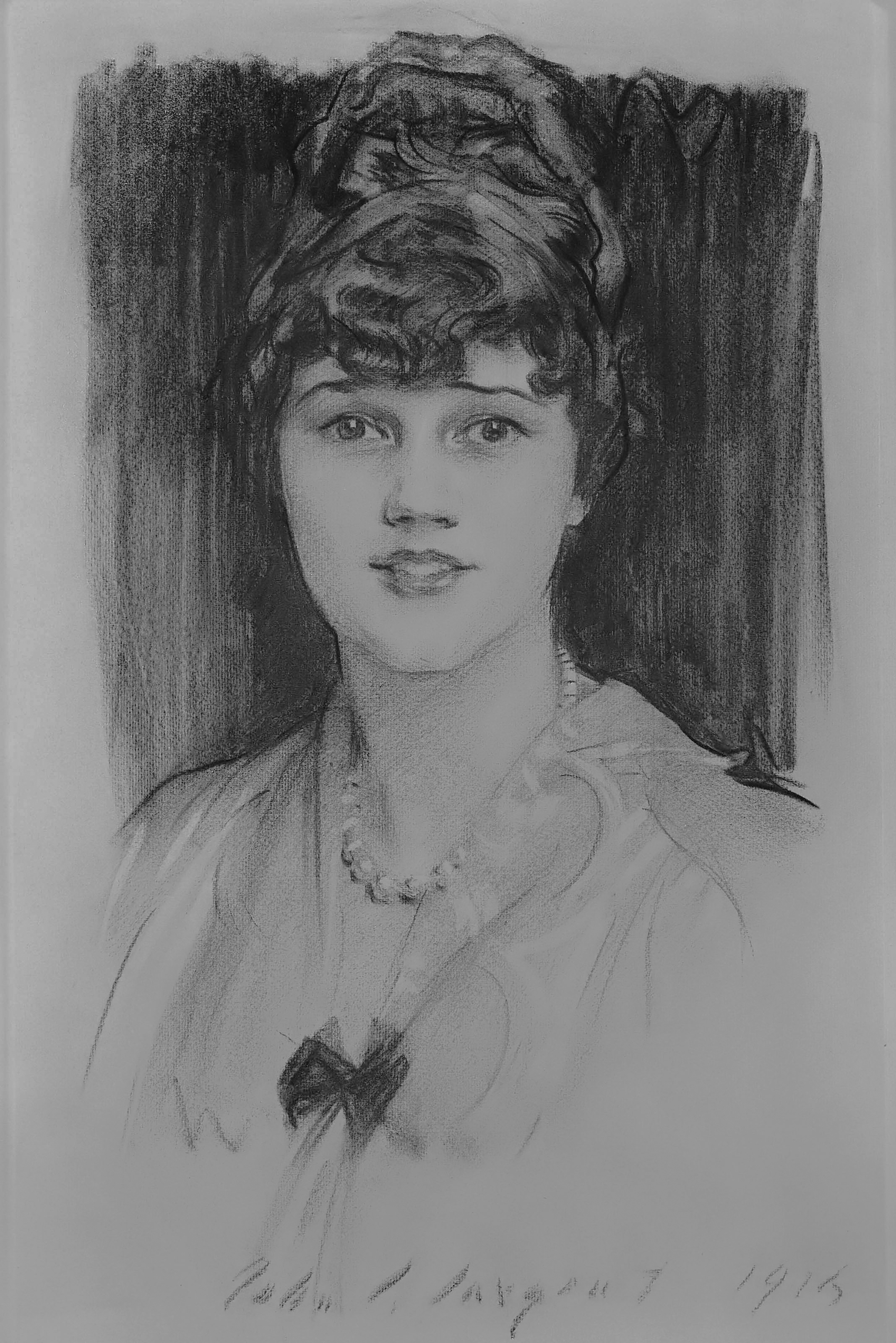 Constance Coolidge (1892-1973) black chalk on paper 61 x 48.3 cm signed b.c.: John S. Sargent 1915